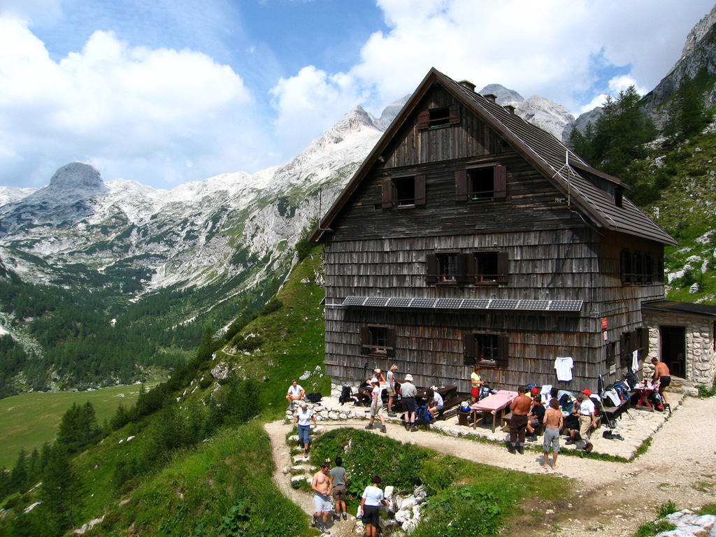 Vodnikov dom na Velem polju (1817m), a mountain hut at Triglav